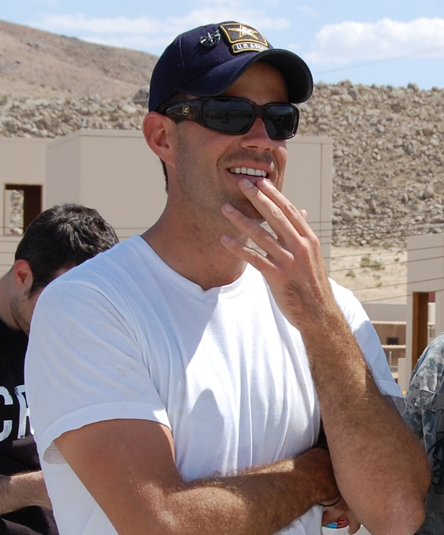 Carson Daly at Fort Irwin, California, on May 27, 2009.